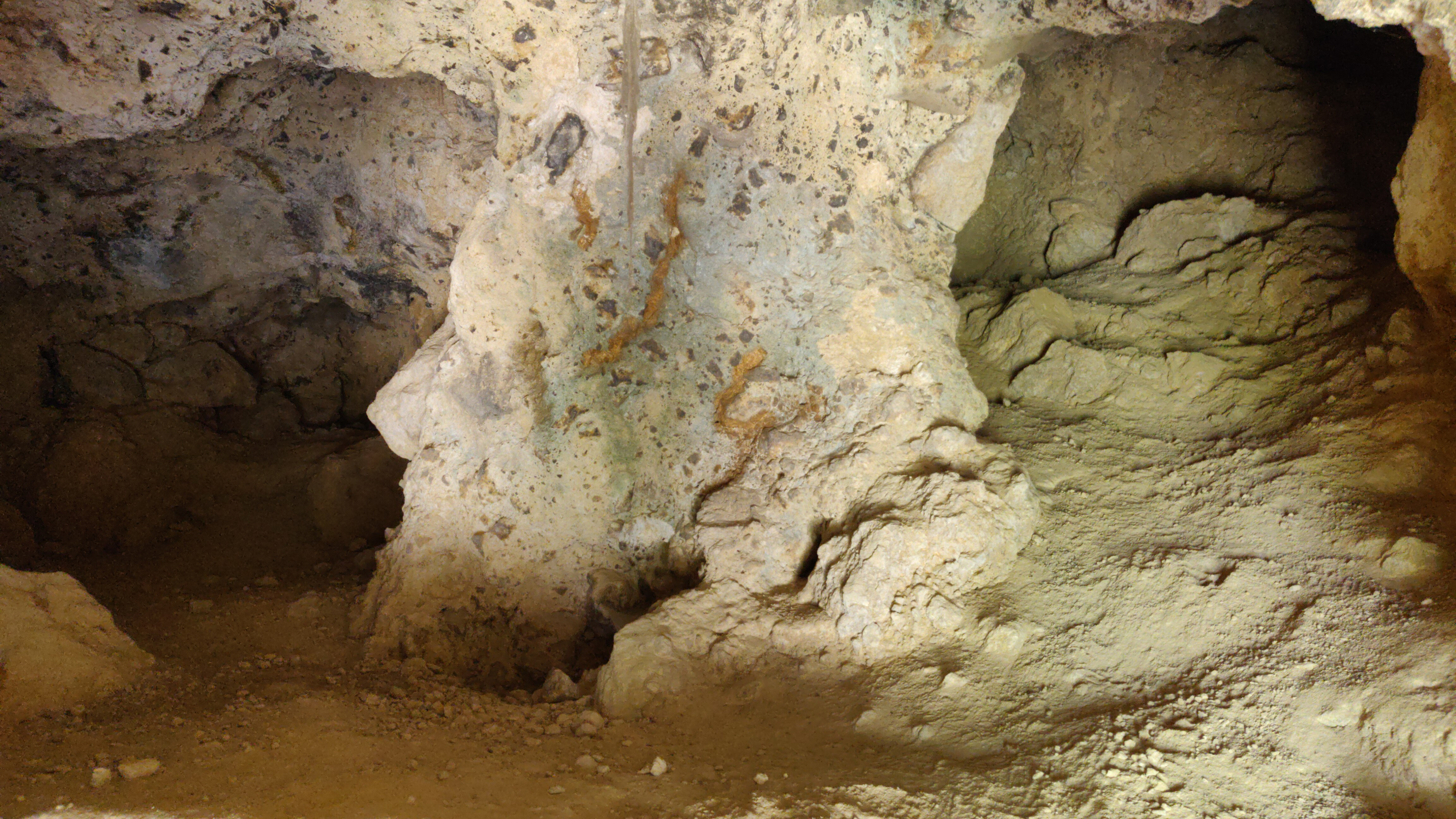 Inside the Cave of Pedra Furada, near Vila Franca de Xira, north of Lisbon, Portugal